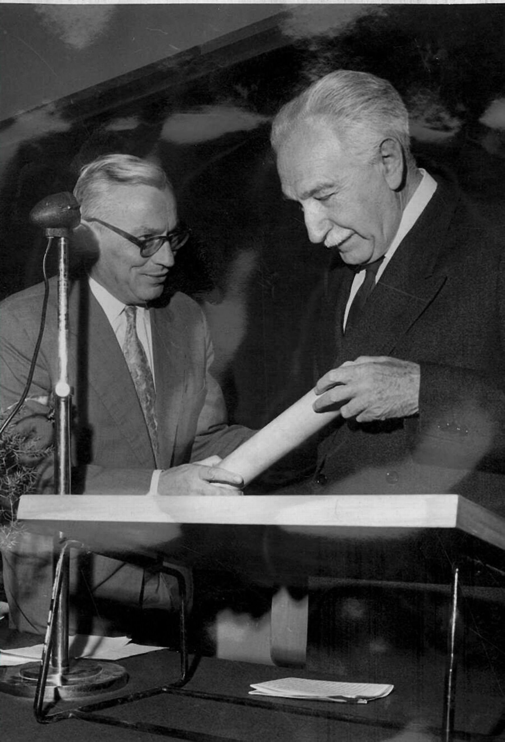 Hugo Bergman receives an Honorary Doctorate from the Hebrew University of Jerusalem